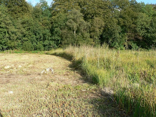 Reed bed, formerly Blakemere Pool Blakemere Pool is shown on the 1940's OS map, but the reeds and sedges have gradually colonised it so that no open water is left. The Staffordshire Wildlife Trust manages it by cutting about a third of the reedbed every year, and cutting down any saplings growing in it. More information is given on a board at one side of the reedbed.